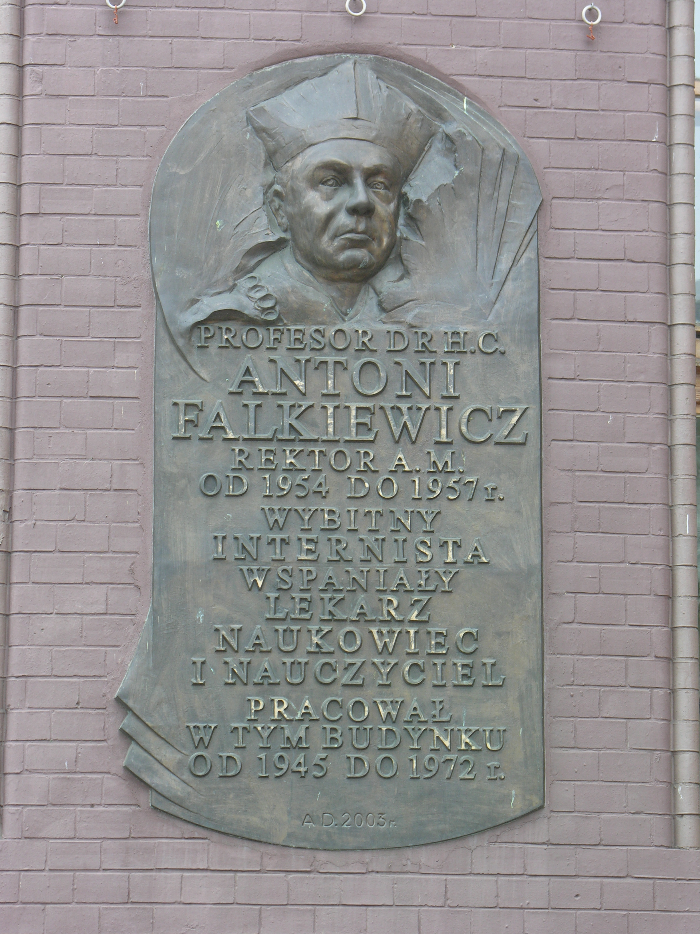 Tablica ku czci profesora Antoniego Falkiewicza, Wrocław, ul. Pasteura 4